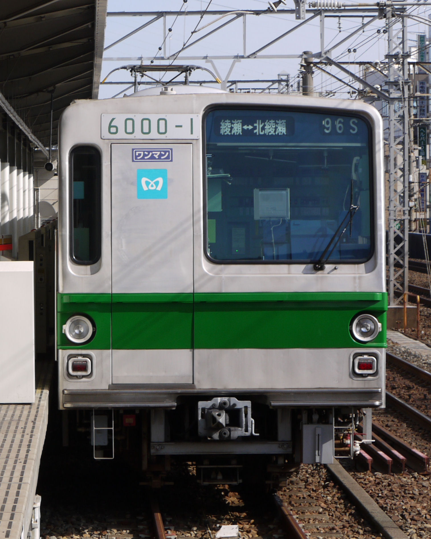 Tokyo Metro 6000-1 at Ayase station